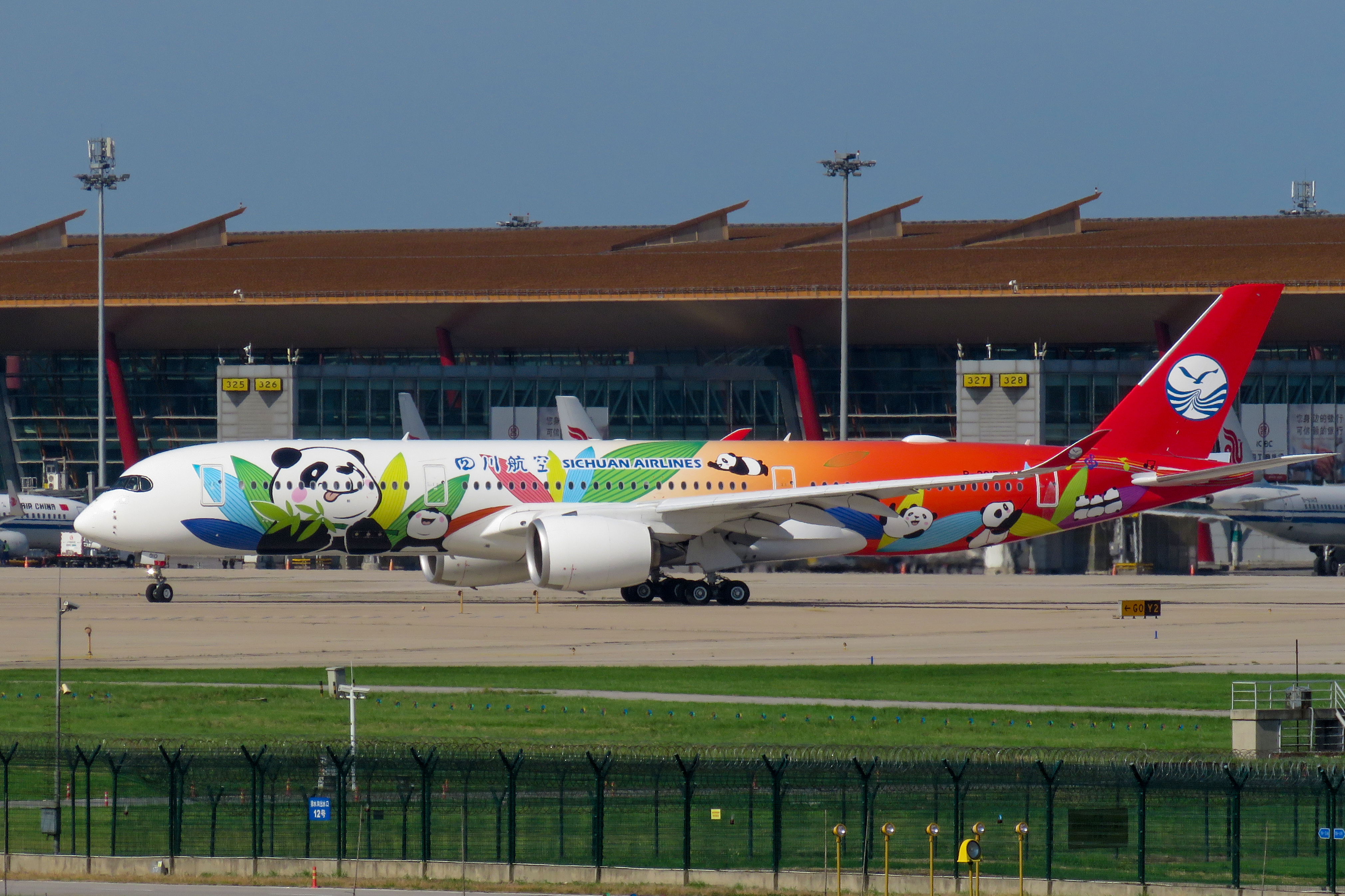 Sichuan 8886 to Chengdu. Second commercial flight for this ex-SriLankan A350.